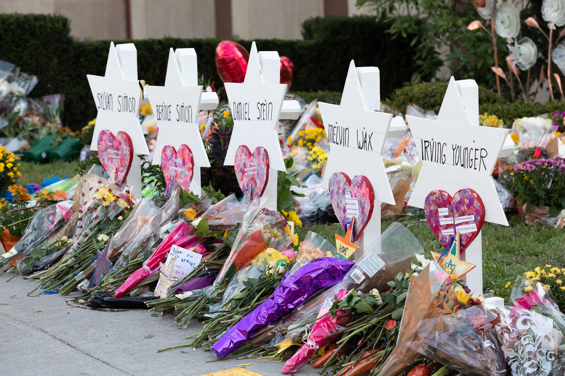 Tree of Life Synagogue - Memorials to Victims. A memorial outside the Tree of Life Congregation Synagogue in Pittsburgh is seen during the visit of President Donald J. Trump and First Lady Melania Trump Tuesday, Oct. 30, 2018, to remember the victims of Saturday’s mass shooting. (Official White House Photo by Andrea Hanks)